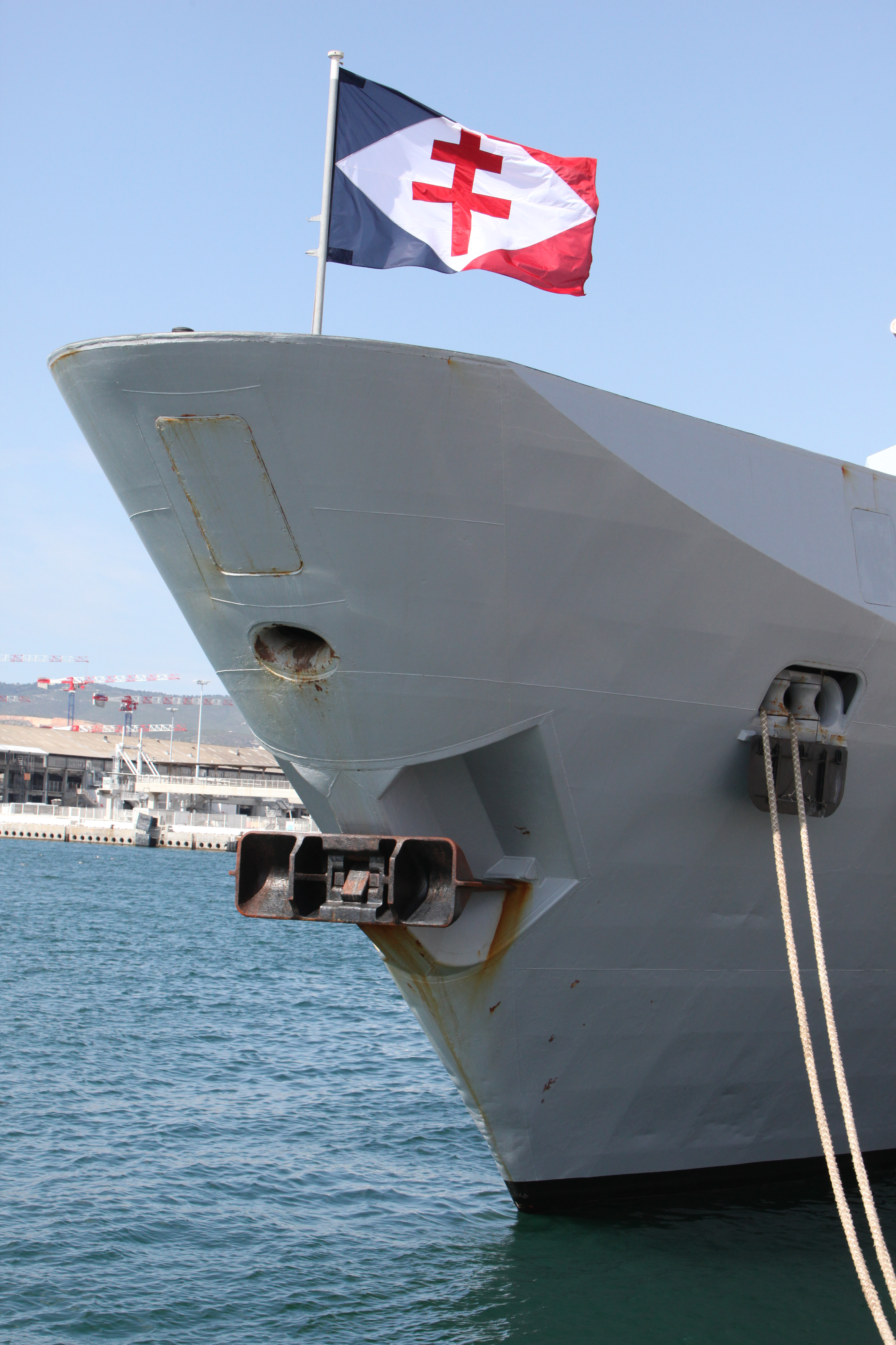 Bow of the stealth frigate Surcouf.